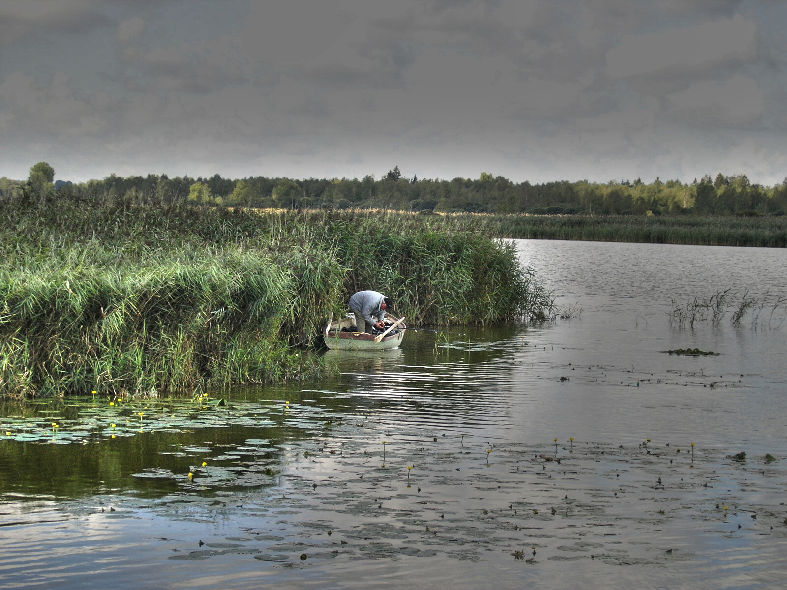 Federsee nature reserve at Bad Buchau, near Biberach an der Riss in South-West Germany